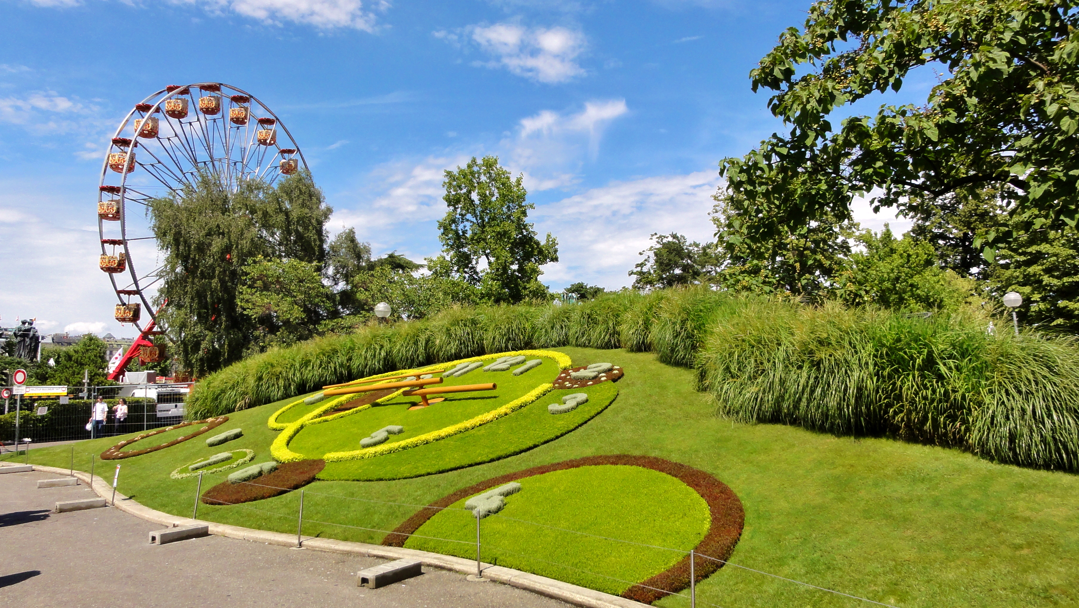 Horloge Fleurie at the Quai du Général-Guisan (Jardin Anglais) during the 2012 Geneva Festival